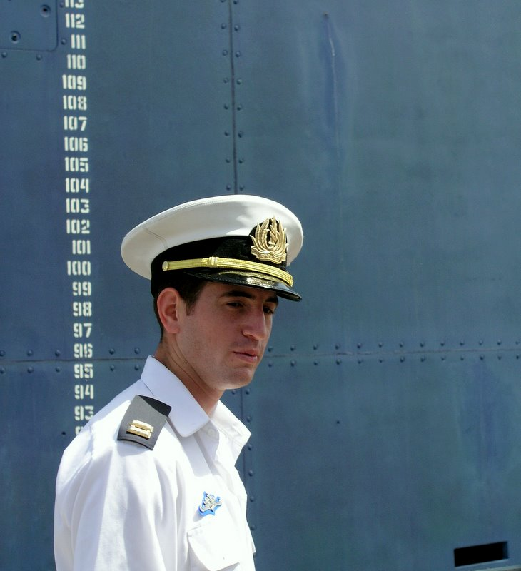 Israeli-Navy-officer